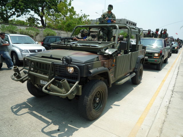 Ecuadorian Army multipurpose vehicles